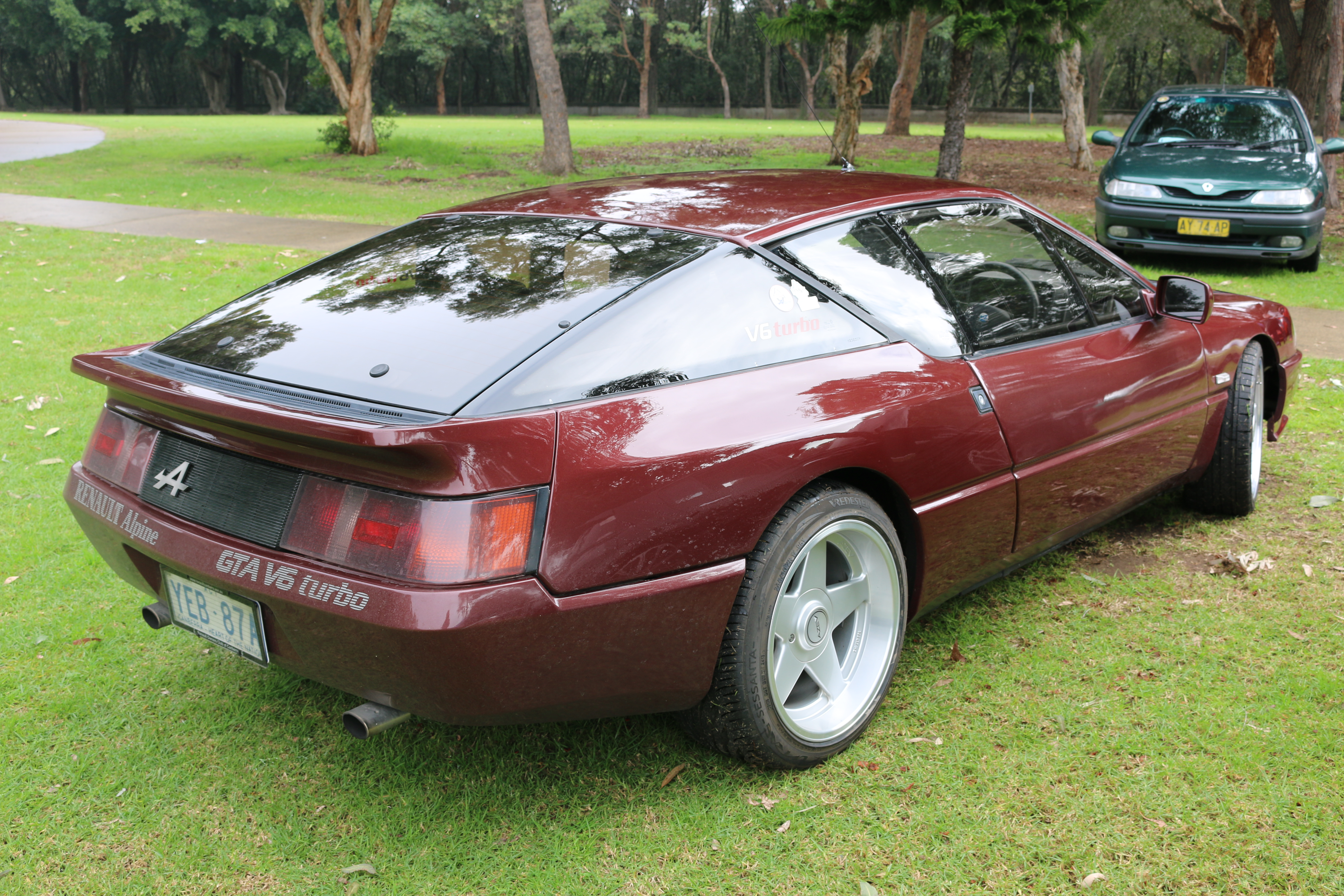 All French Day, Silverwater Park, NSW July 2016